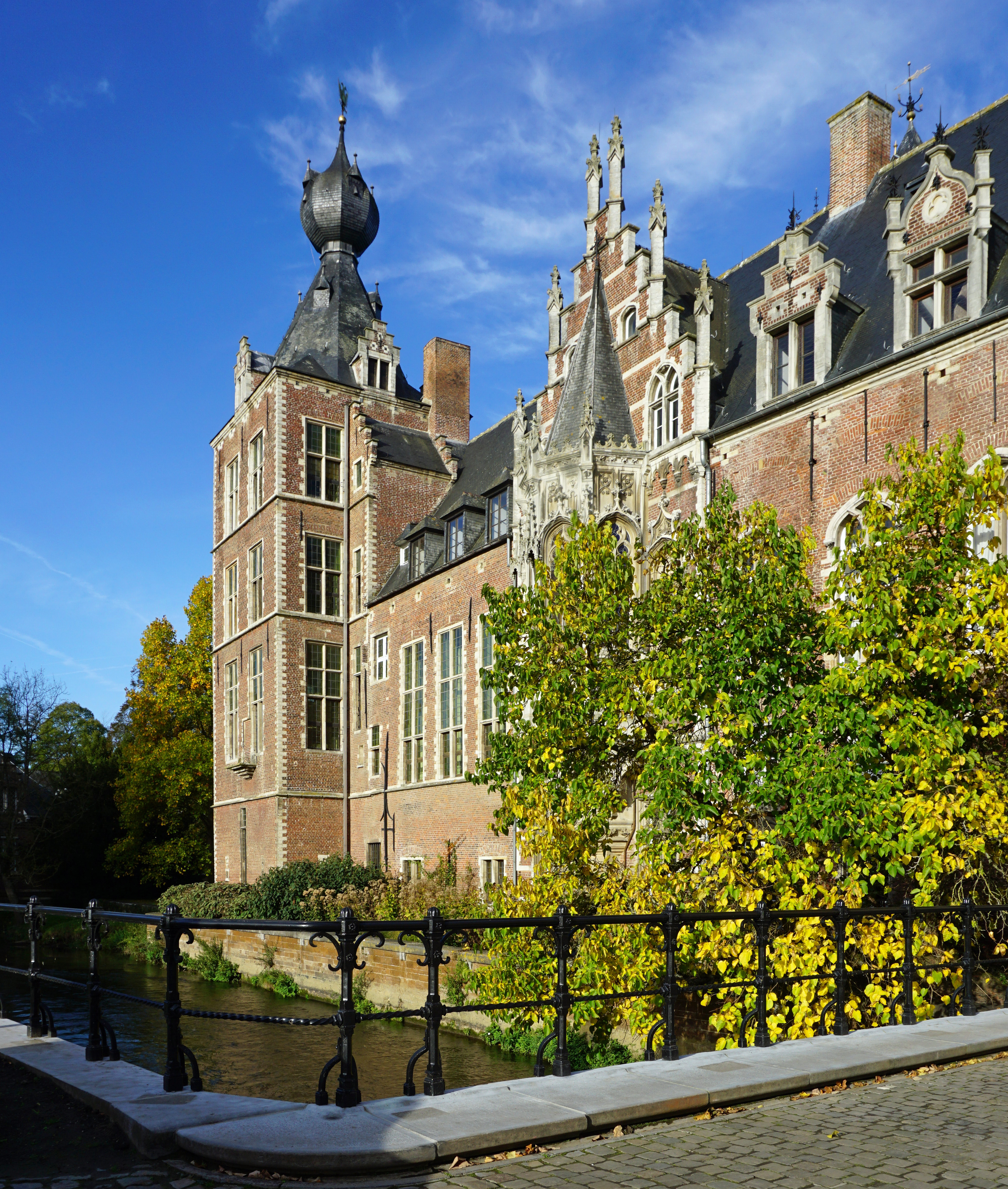 Arenberg Castle (Heverlee, Leuven, Belgium)